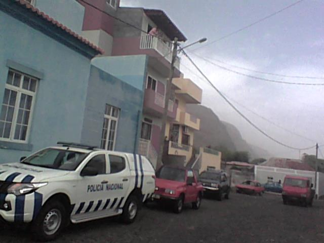 Vila de Igreja